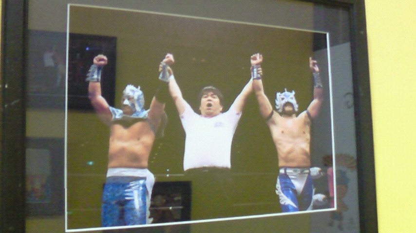 Professional wrestling referee Ted Tanabe.